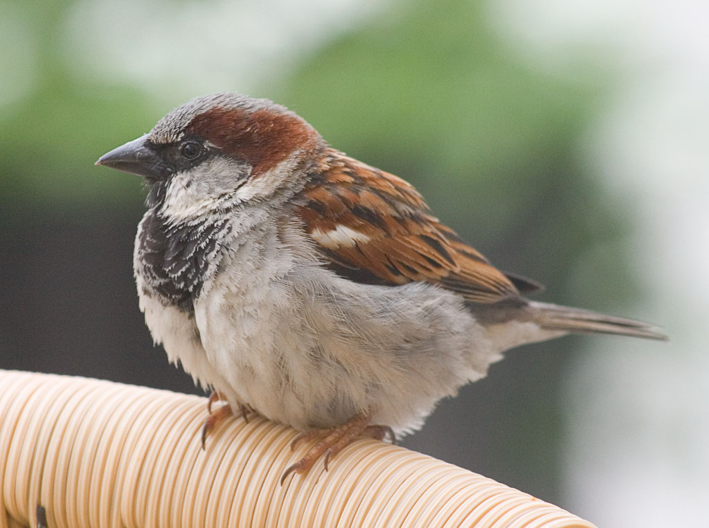 A male House Sparrow (Passer domesticus)